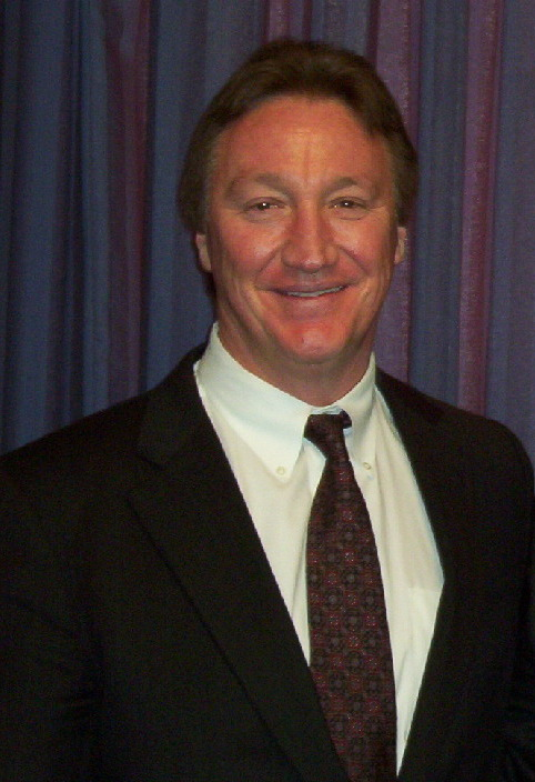 Rep. Devin Nunes meets with Fresno Mayor Autry (Jan. 2003)